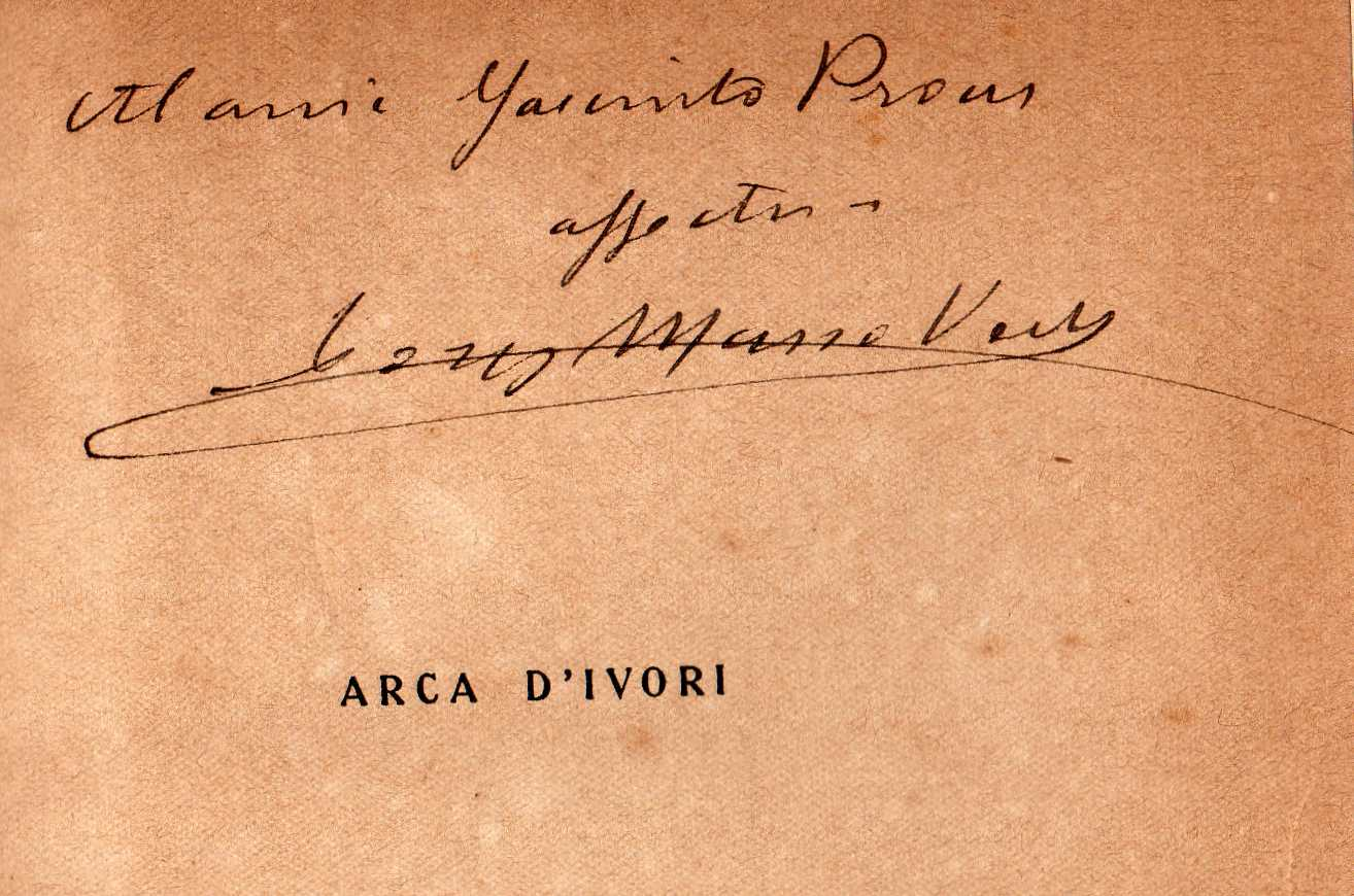 autograph (signature) and inscription of the catalan poet Josep Massó Ventós, in his book Arca d'Ivori, published at 1912